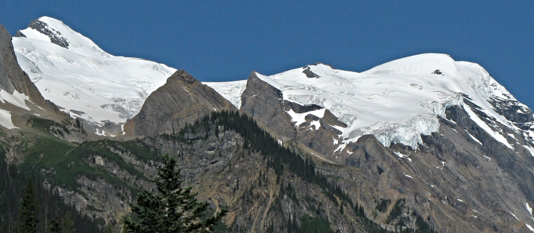 Mummery Group